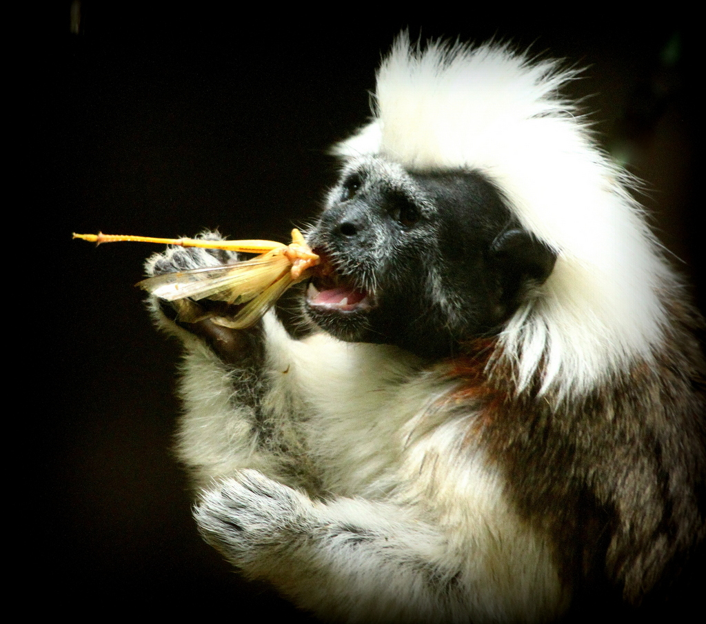 Cotton-top tamarin eating a grasshopper